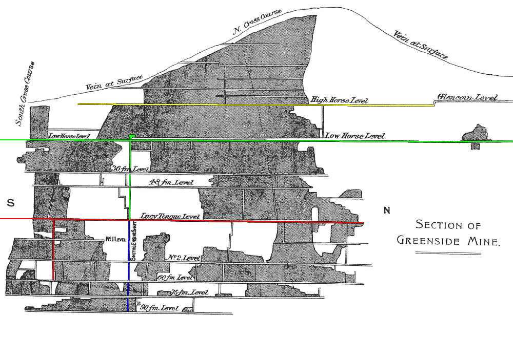 Greenside mine plan, 1910